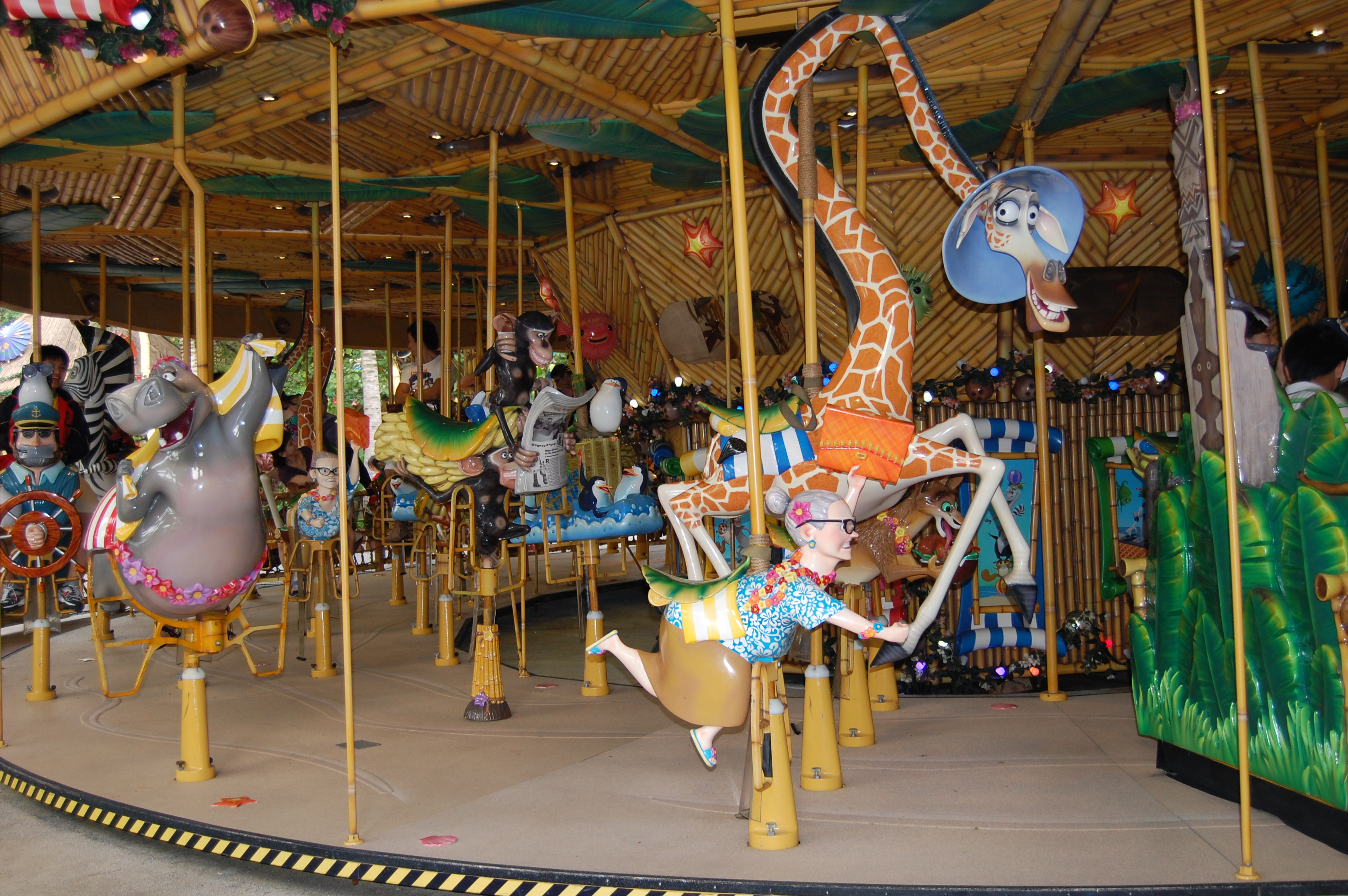 Universal Studio Singapore